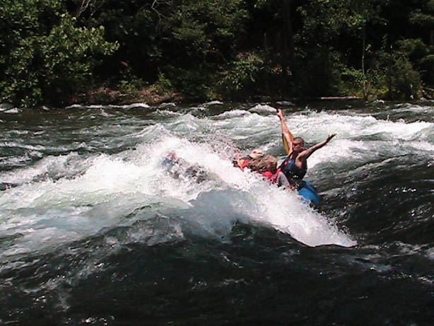 Whitewater rafters on the Watauga River in Northeast Tennessee plunging up through "The Big Hole" found within the Bee Cliff Rapids southeast of Elizabethton.